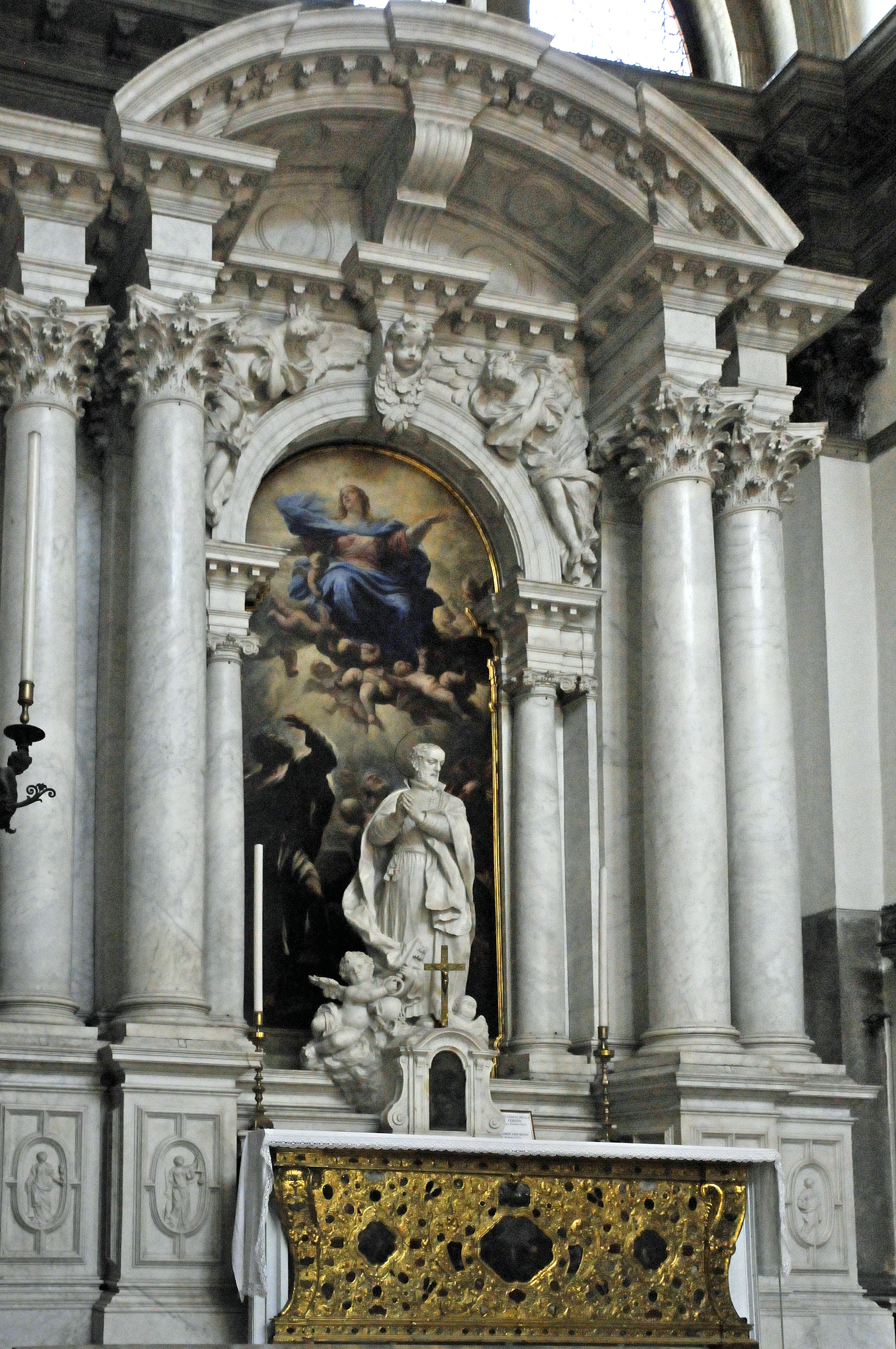 Girolamo Miani by Giovanni Maria Morlaiter on the Altare dell'Assunta